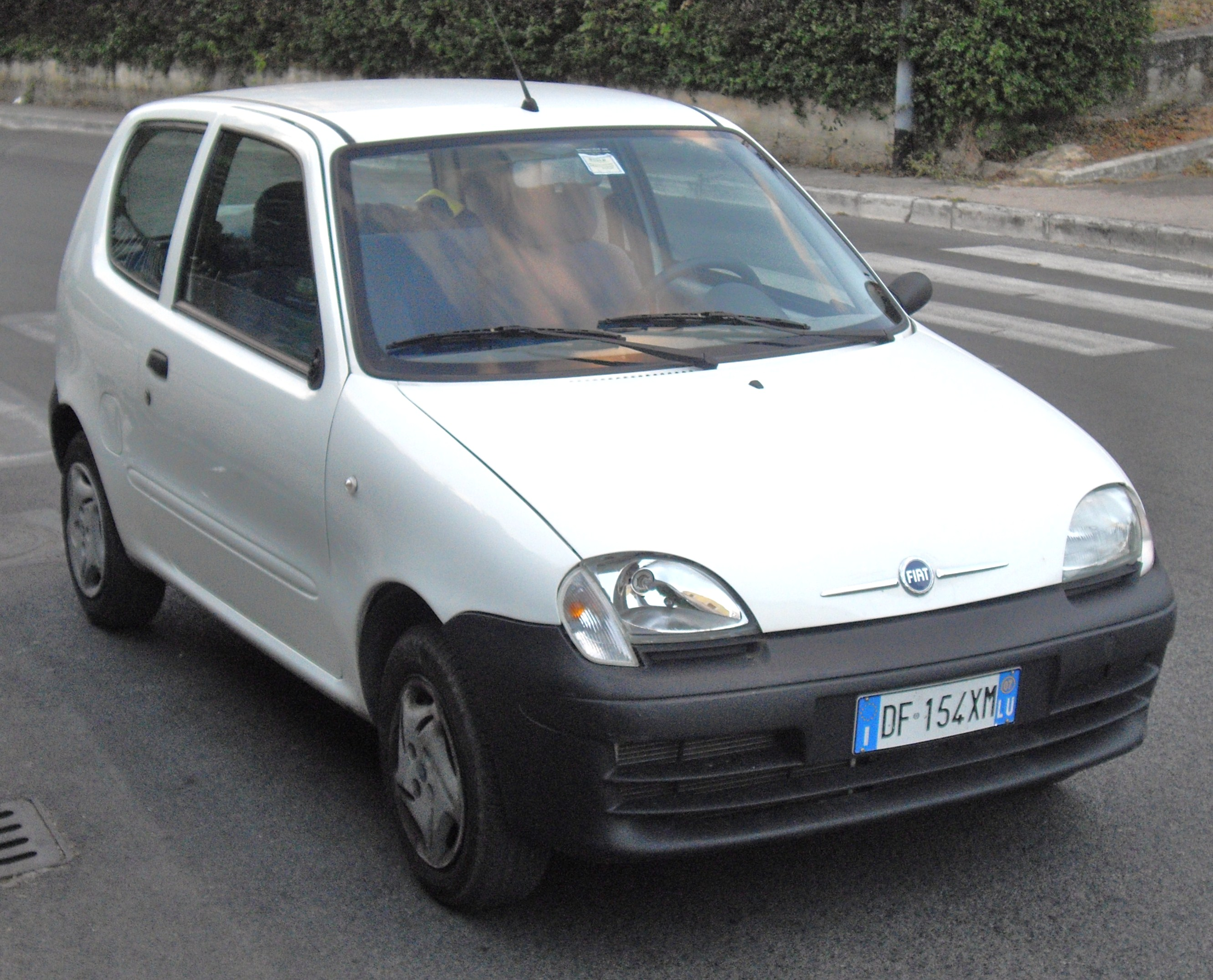 White Fiat 600.